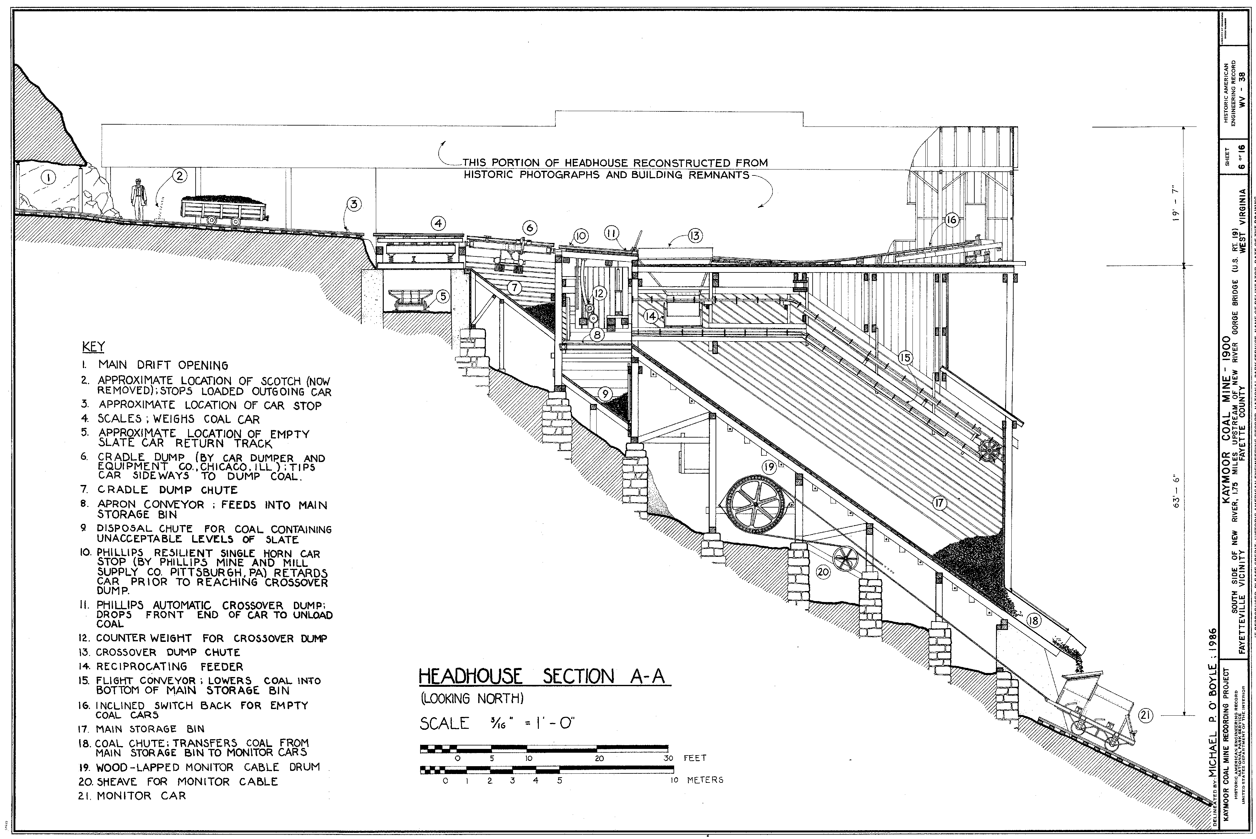 Kay Moor coal mine headhouse, West Virginia, Historic American Engineering Record drawing.